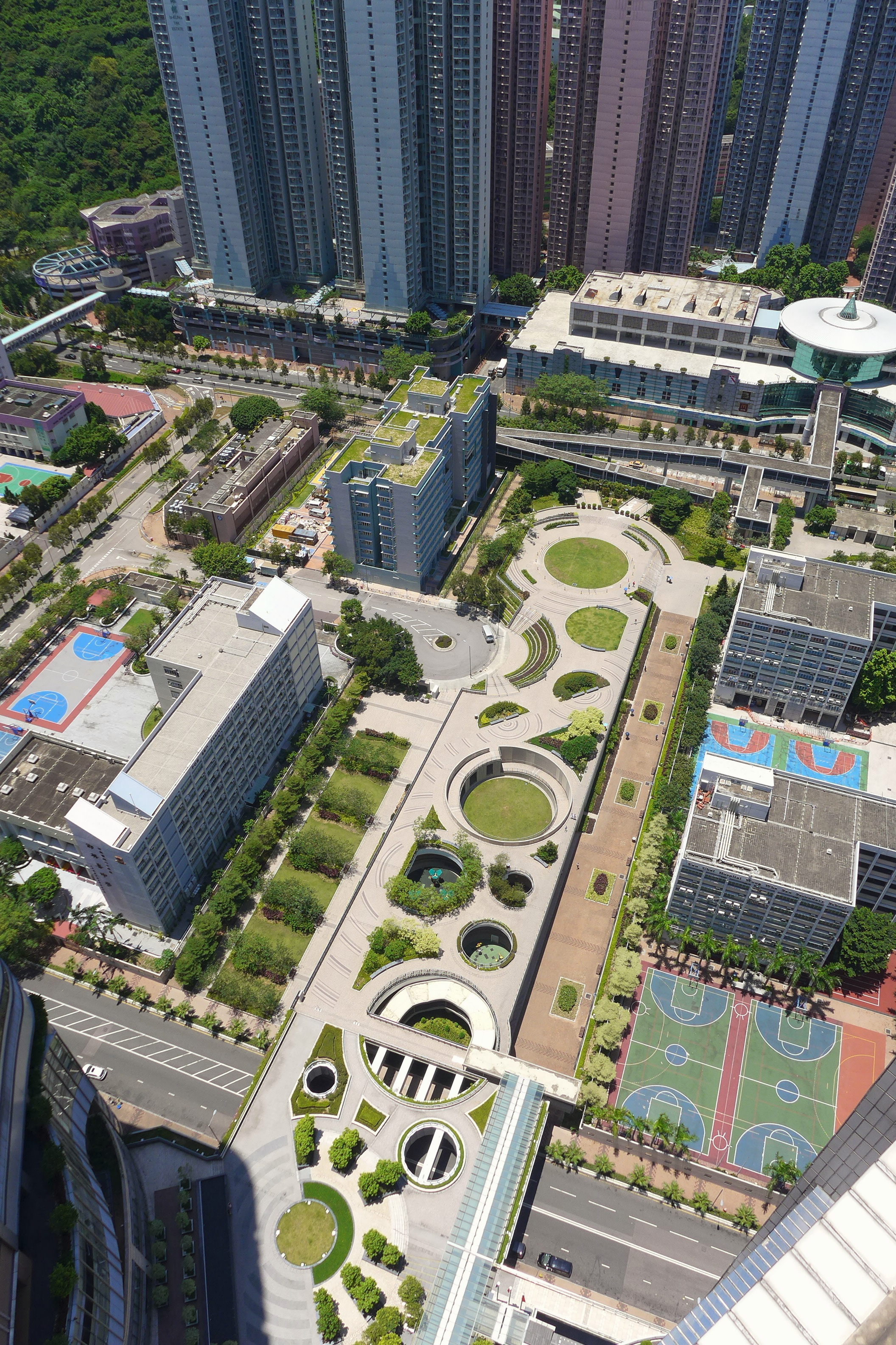 Tong Ming Street Park